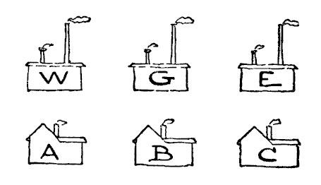 Original graph taken from Amusements in mathematics for water gaz electricity enigma